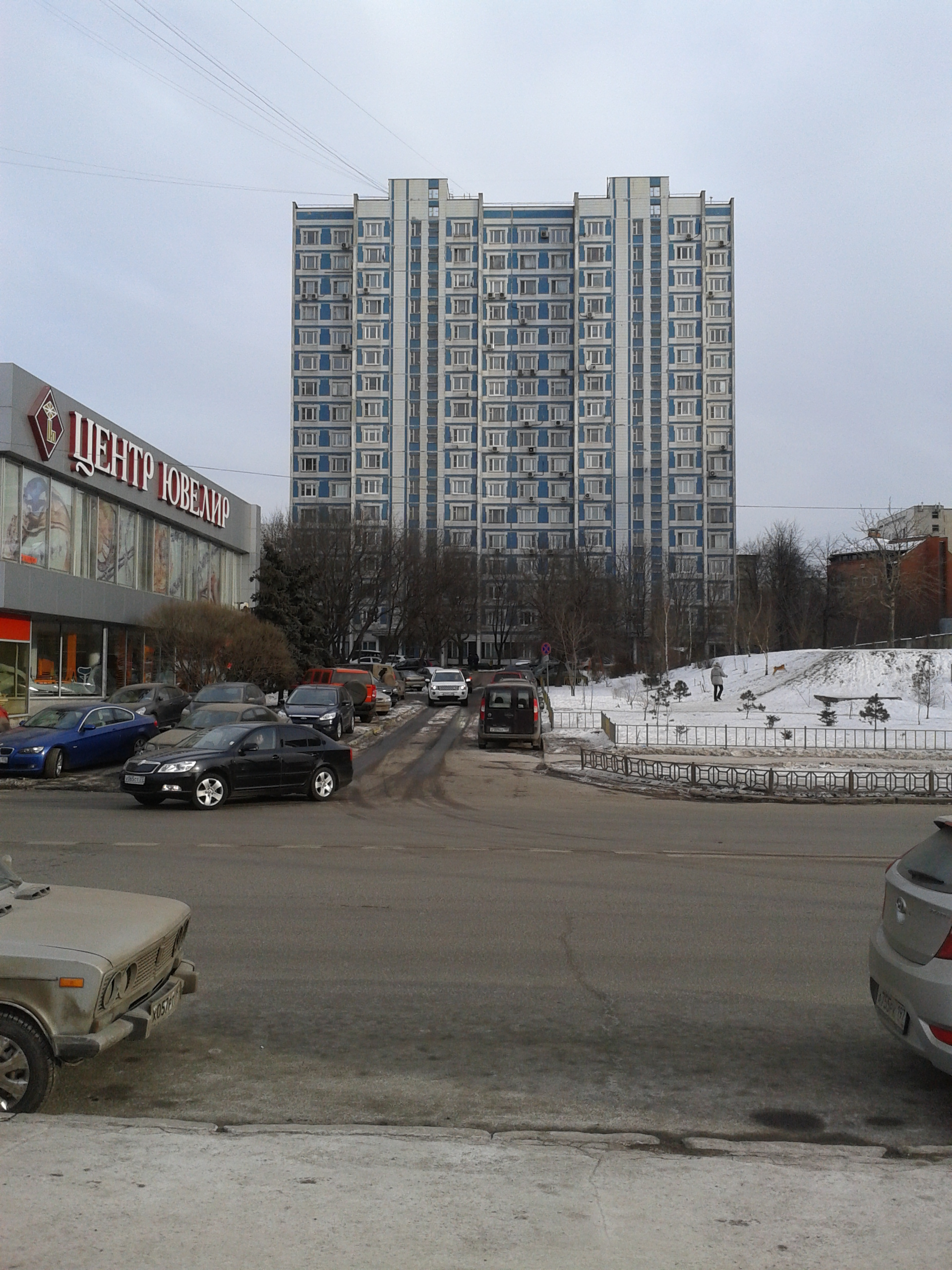 Mal. Ekaterininskaya street in Moscow, Russia